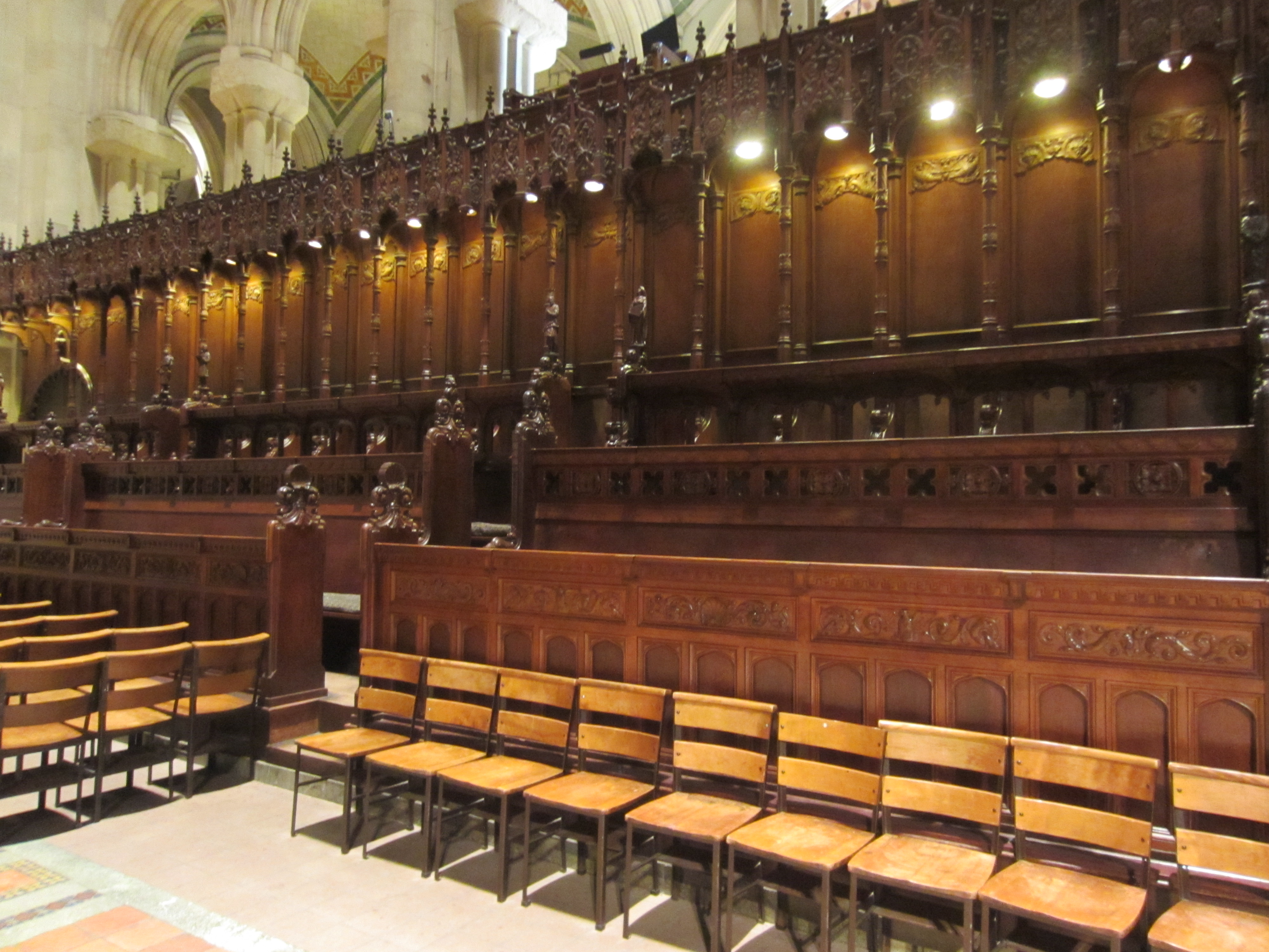 Cathedral of Saint John the Divine in New York City in June 2014